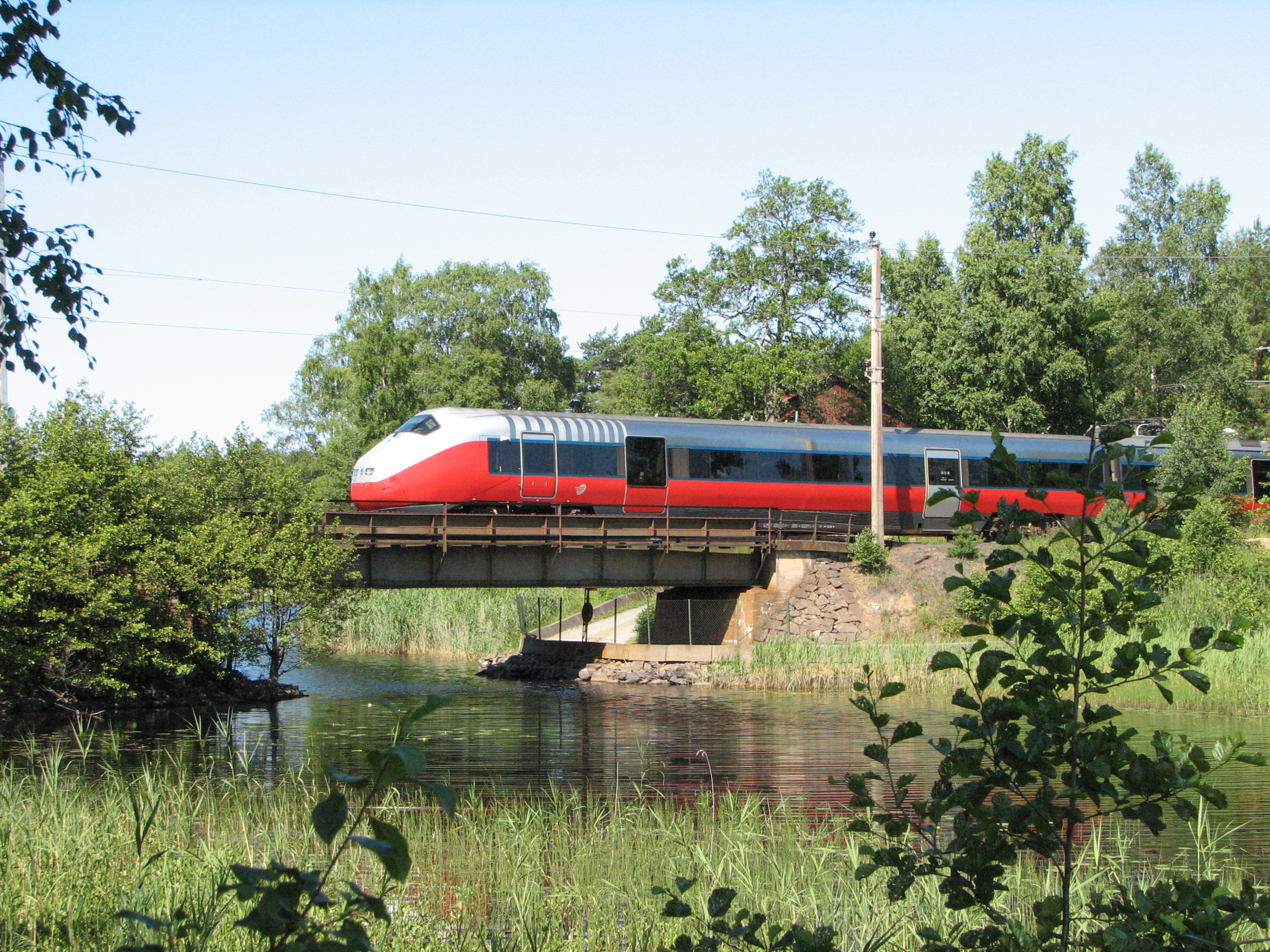 Passenger train is crossing the border between Norway and Sweden near Kornsjø